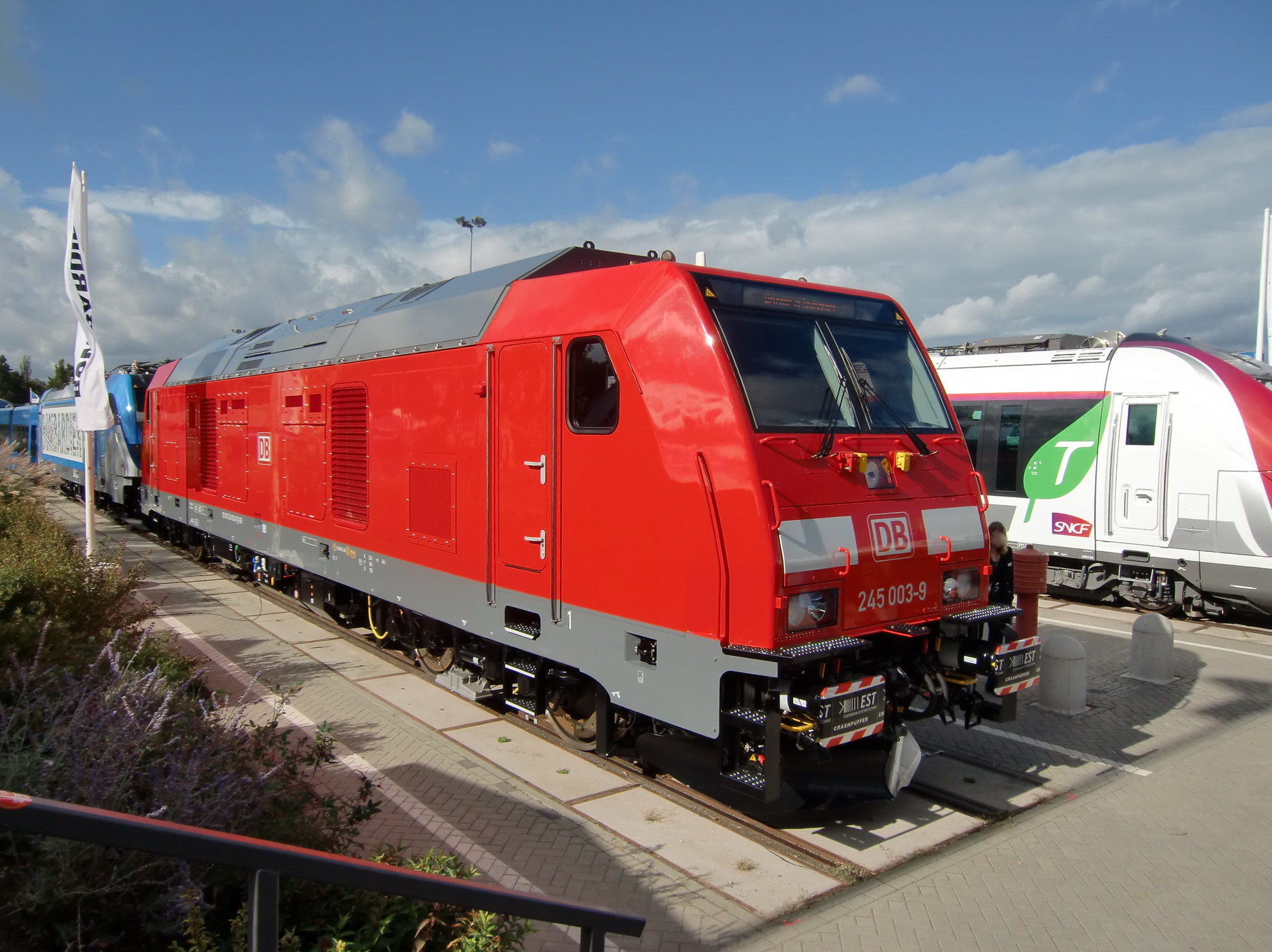 Bombardier Traxx locomotive with diesel engine in Berlin, Germany. InnoTrans 2012.